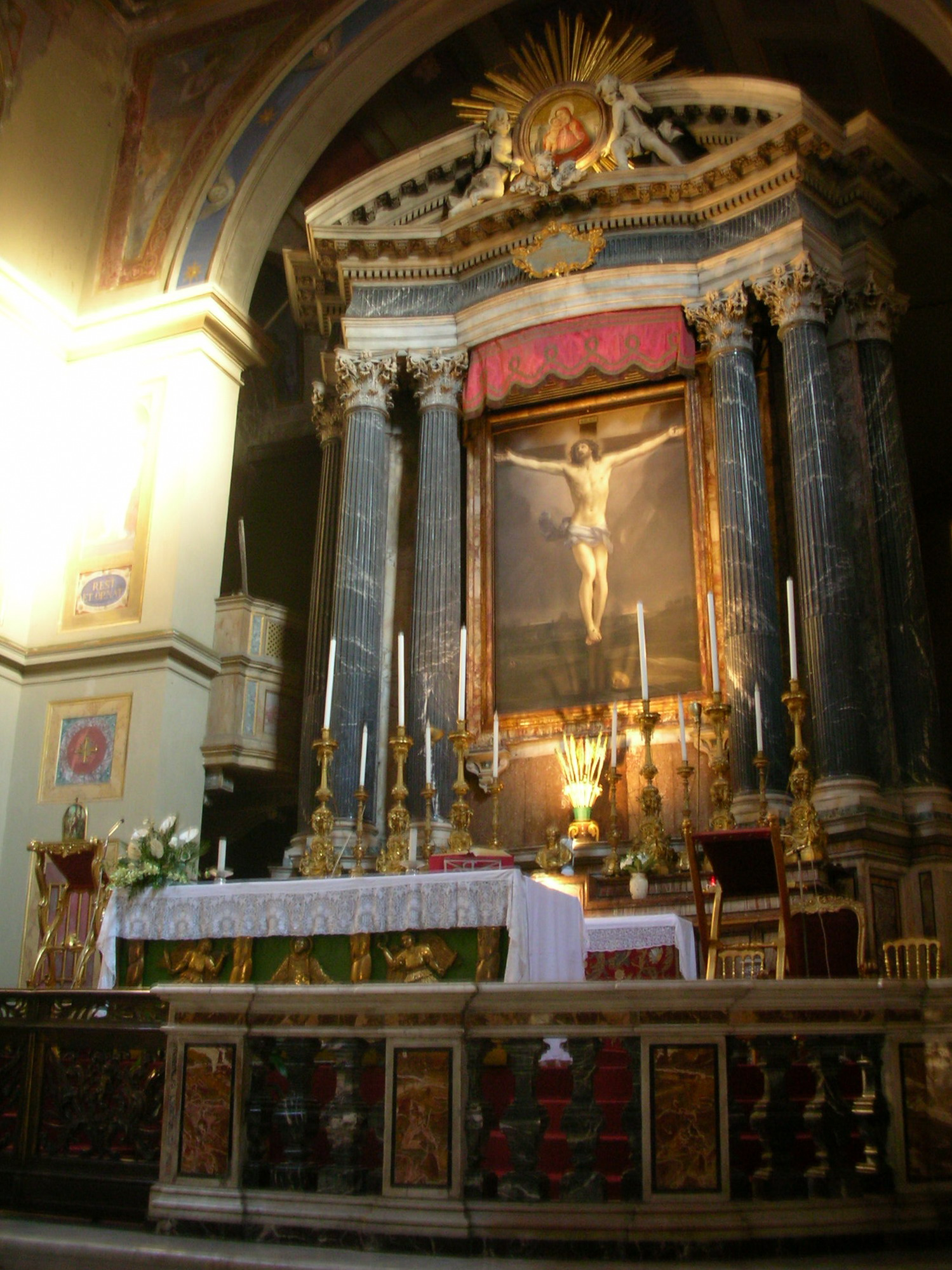 Main Altar, San Lorenzo in Lucina, Rome. The Crucifix is by Guido Reni.